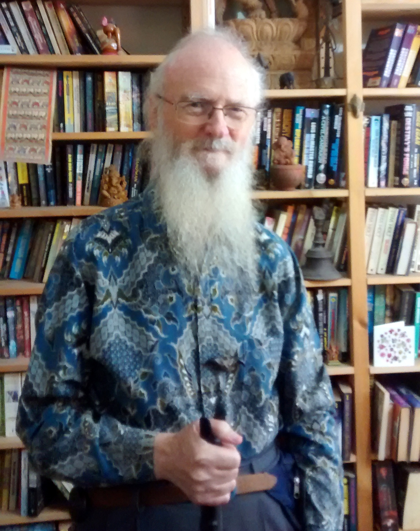 Tim Poston at his residence in Bangalore, India, on May 30, 2016